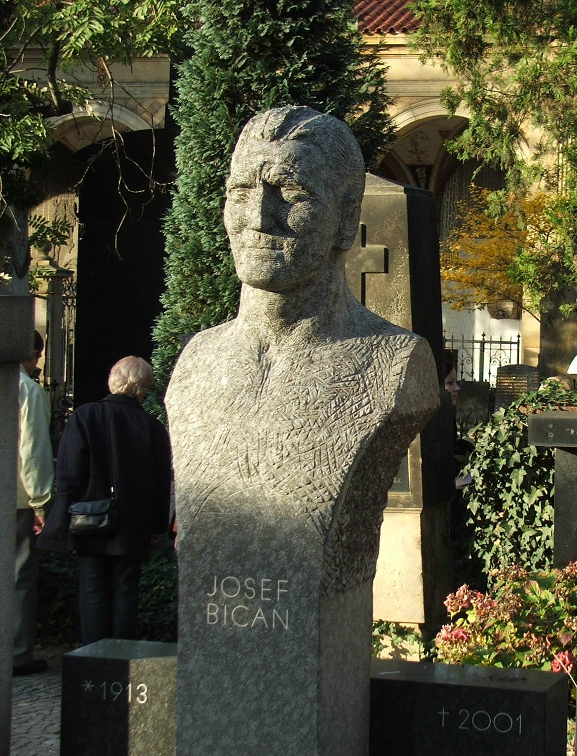 Tombstone of Josef "Pepi" Bican, famous Czech footballer at Prague's Vyšehrad cemetery; sculptor Stanislav Hanzík